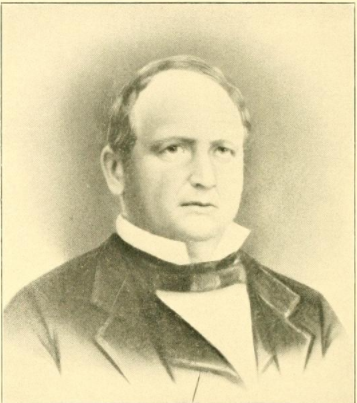 Portrait of Michel (Michael) Branamour Menard